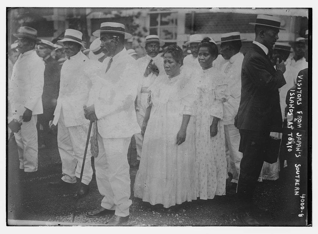 Bain News Service,, publisher. Visitors from Japan's southern islands at Tokyo [between ca. 1915 and ca. 1920] 1 negative : glass ; 5 x 7 in. or smaller. Notes: Title from unverified data provided by the Bain News Service on the negative. Forms part of: George Grantham Bain Collection (Library of Congress). Format: Glass negatives. Repository: Library of Congress, Prints and Photographs Division, Washington, D.C. 20540 USA, General information about the Bain Collection is available at Higher resolution image is available (Persistent URL): Call Number: LC-B2- 4000-8